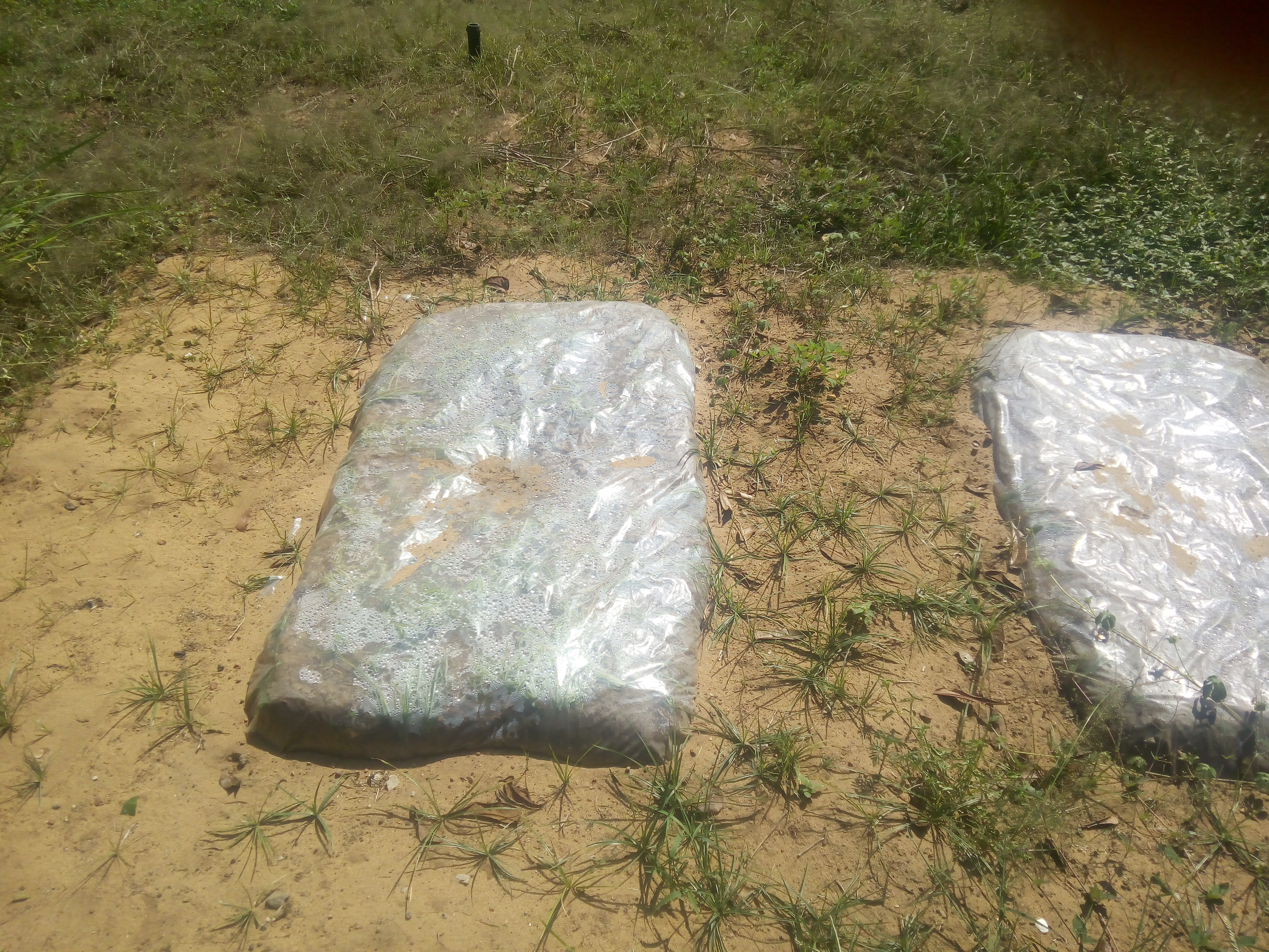 മണ്ണ് സൂര്യതാപീകരണം